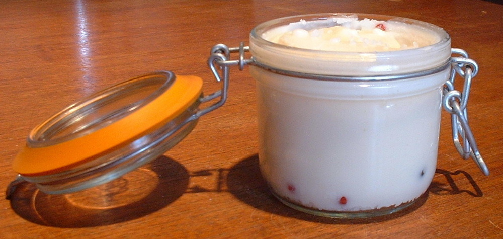 Suet. Ready to use in dumplings.